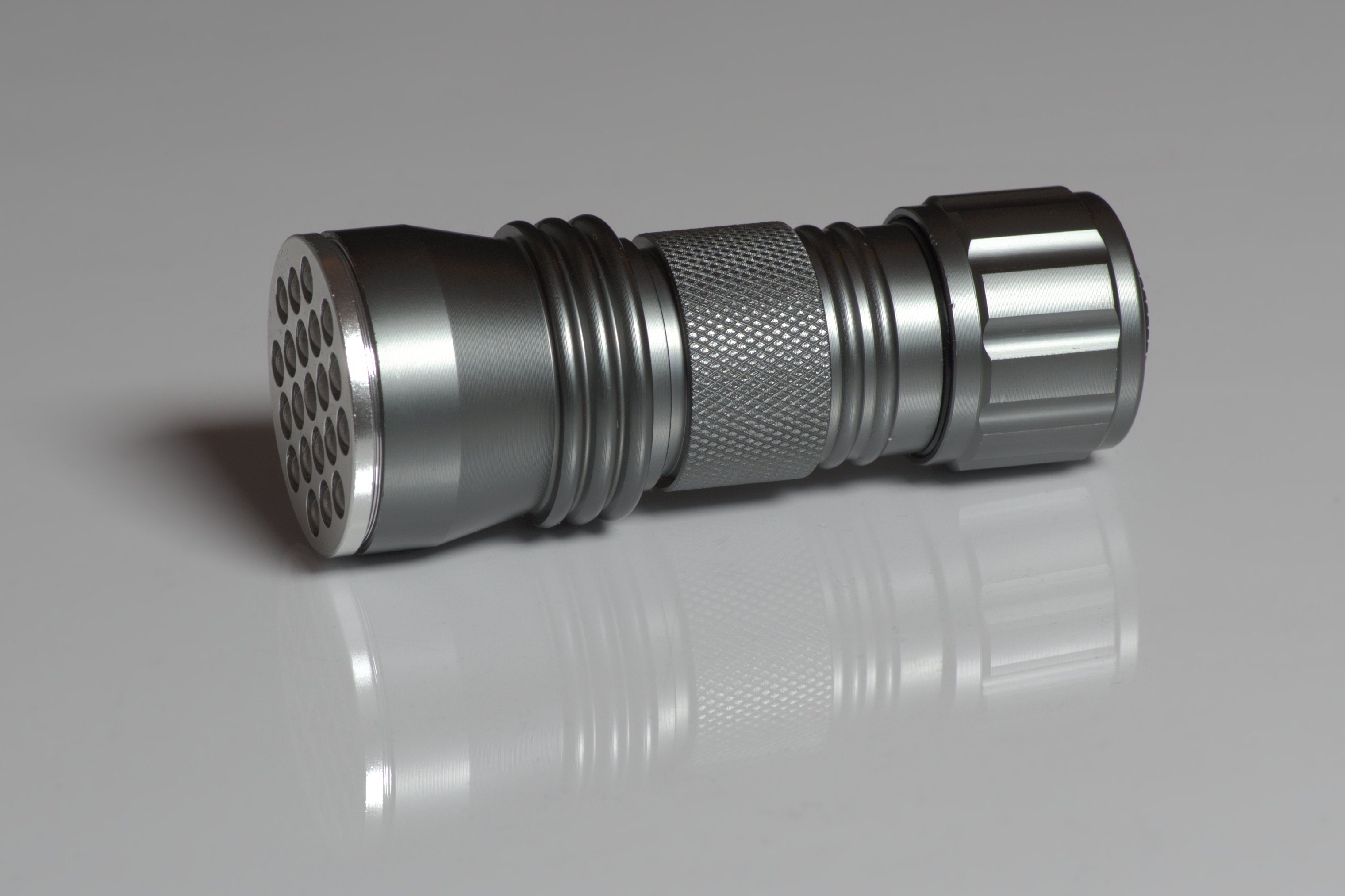 A cheap aluminium LED flashlight emitting violet visible light as well as UV-A/black light (probably not below 380 nm though). Can be used for checking bank notes, reading "invisible ink" etc. This specific one was bought to “de-yellow” an old Takumar lens, results can be seen here.